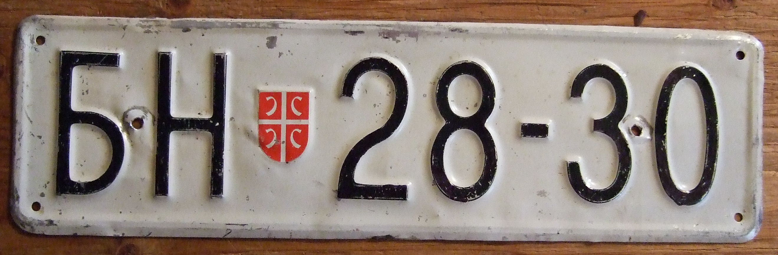 A regular passenger plate from the 1990's from the Serb dominated region of Bosnia-Herzogovina once part of Yugoslavia. The shield between the Cyrillic letters and the numbers is divided into four quadrants each with a Cyrillic "S" two reversed positioned. These four "S" stand for "SAMO SLOGA SRBINA SPASANA" Only Unity saves the Serbs. Earlier versions of this plate had the shield without the "S's" This plate has the Cyrillic prefix denoting the plate was issued in Bijeljina the second largest city in Srbska.